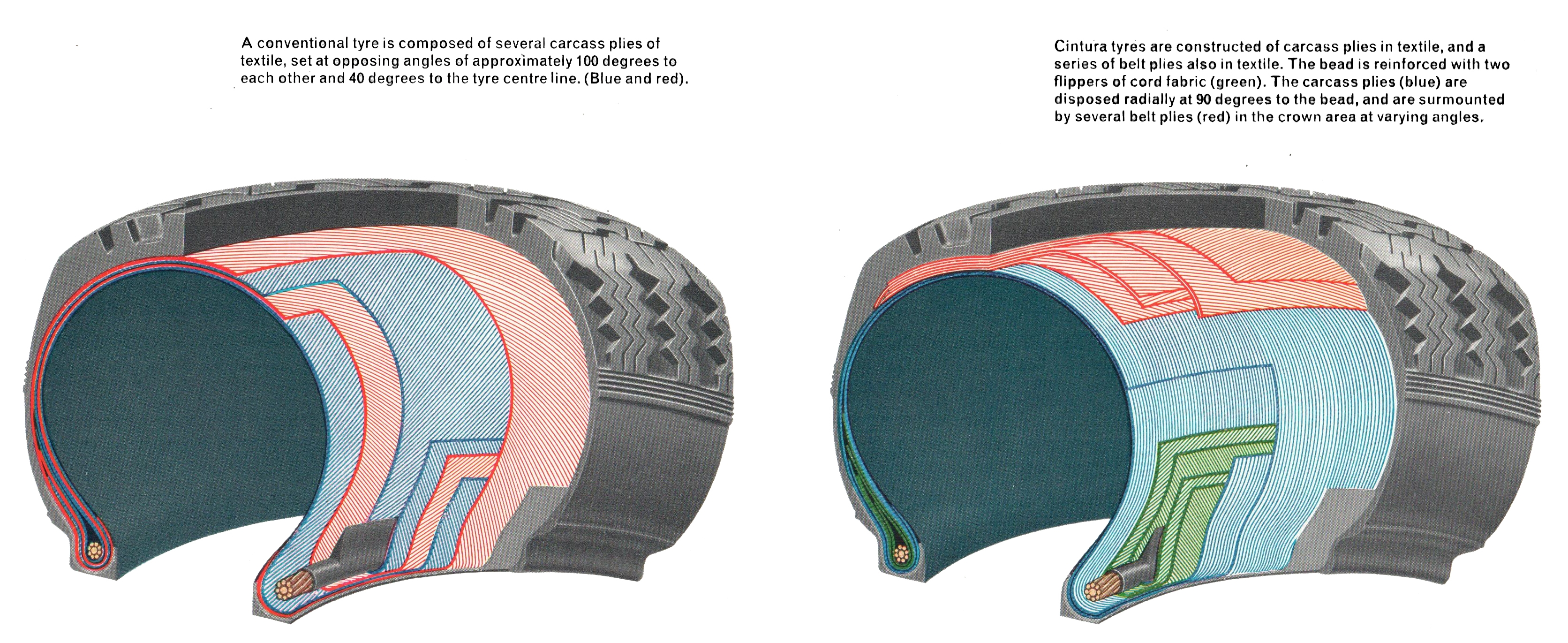 The comparison cutaway between a standard radial tire and a Pirelli Cinturato radial tire.Text inside:"A conventional tyre is composed of several carcass plies of textile, set at opposing angles of approximately 100 degrees to each other and 40 degrees to the tyre central line. (Blue and red)." "Cintura tyres are constructed of carcass plies in textile, and a series of belt plies also in textile. Te bead is reinforced whith two flippers of cord fabric (green) The carcass plies (blue) are disposed radially at 90 degrees to the bead, and are surmounted by several belt plies (red) in the crown area at varying angles."